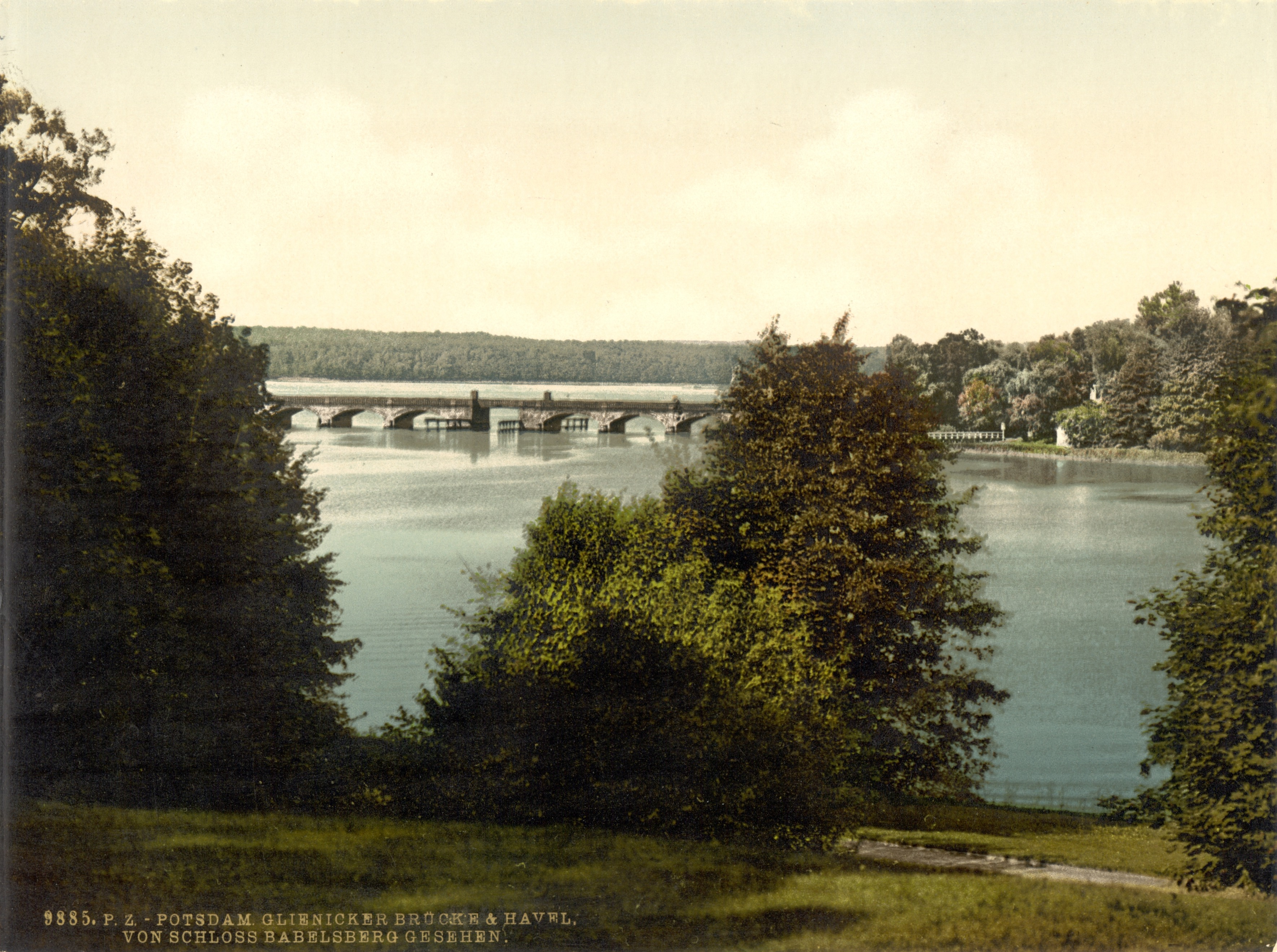 Potsdam (Germany) - Glienicke bridge